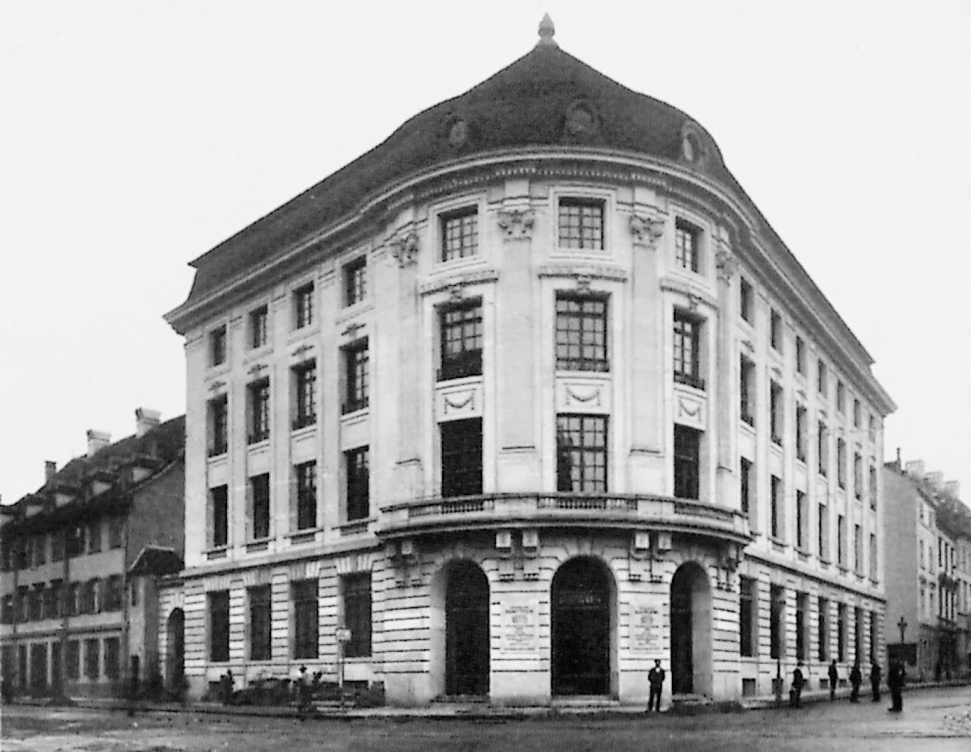 Basel Office of Swiss Bank Corporation, one of the two predecessors of UBS AG c.1920